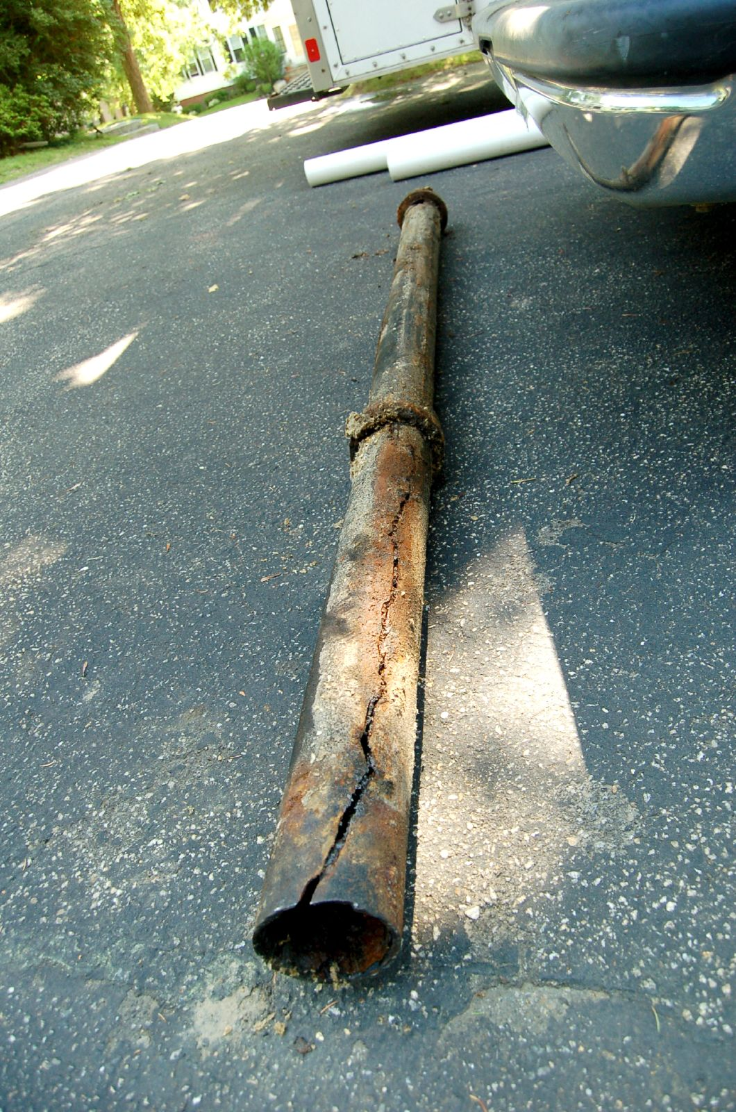 Crack Pipe. Here is the section of cast iron pipe the plumbers removed. The crack runs the entire length of the first section.